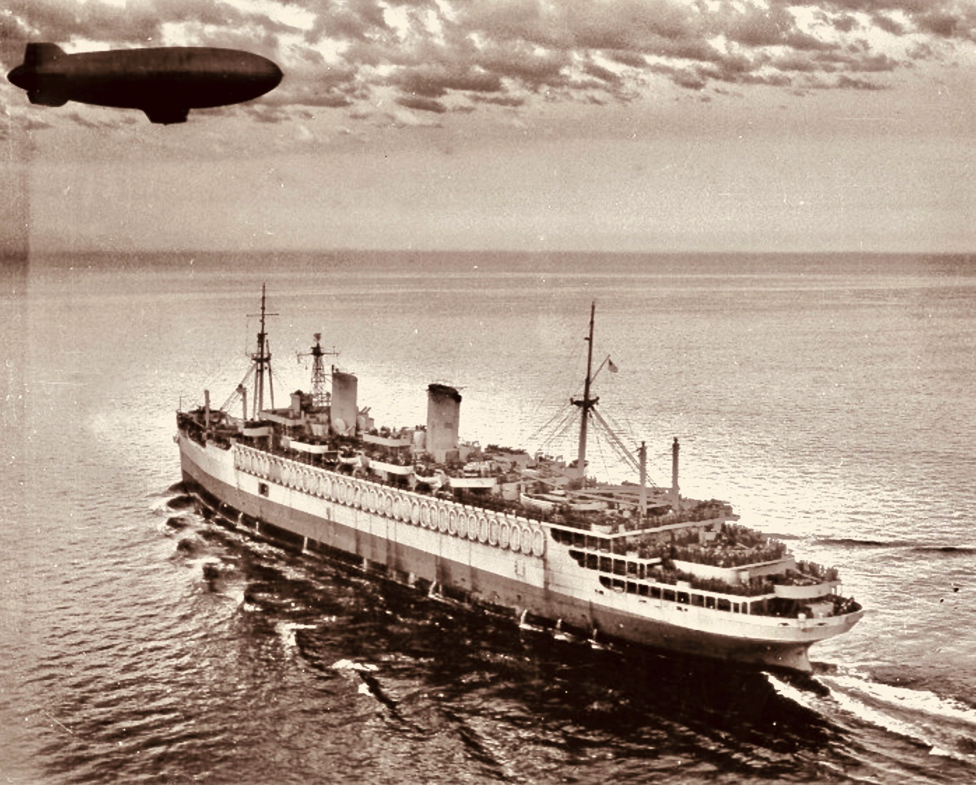 USS Wakefield (AP-21) "COAST GUARD TRANSPORT HEADS INTO BOSTON. . . . . . .The Coast Guard-manned troop transport, USS Wakefield, arrived in Boston this morning loaded down with more than 8,100 fighting Yanks, from Naples, Italy. Also aboard the transport were Brig. Gen. Raymond E. S. Williamson, of Falmouth, Mass., of the 91st Infantry Division, seven American Red Cross; and six UNRRA members, one of whom was Miss Barbara Johnston of Morson, Mass. The passenger list also included seven members of OWI, one of the OSS, and under heavy guard, six Japanese Diplomats whose status as former representatives to the European Axis was not revealed."; 22 August 1945.